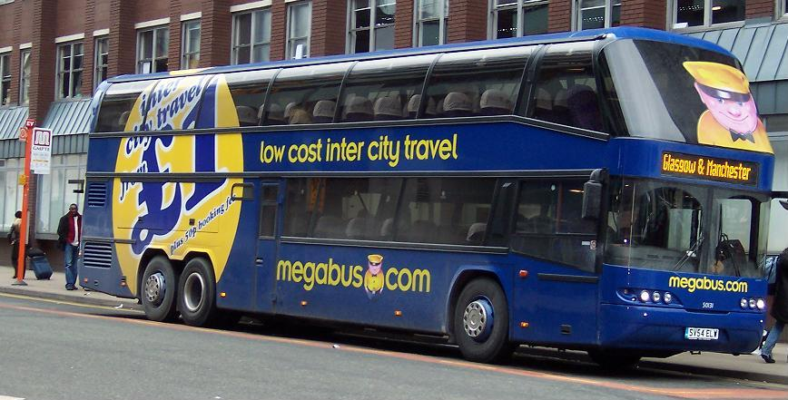 A Megabus coach in Manchester en route from London to Aberdeen. It is a Neoplan Skyliner, registration mark SV54 ELW, fleet number 50131.